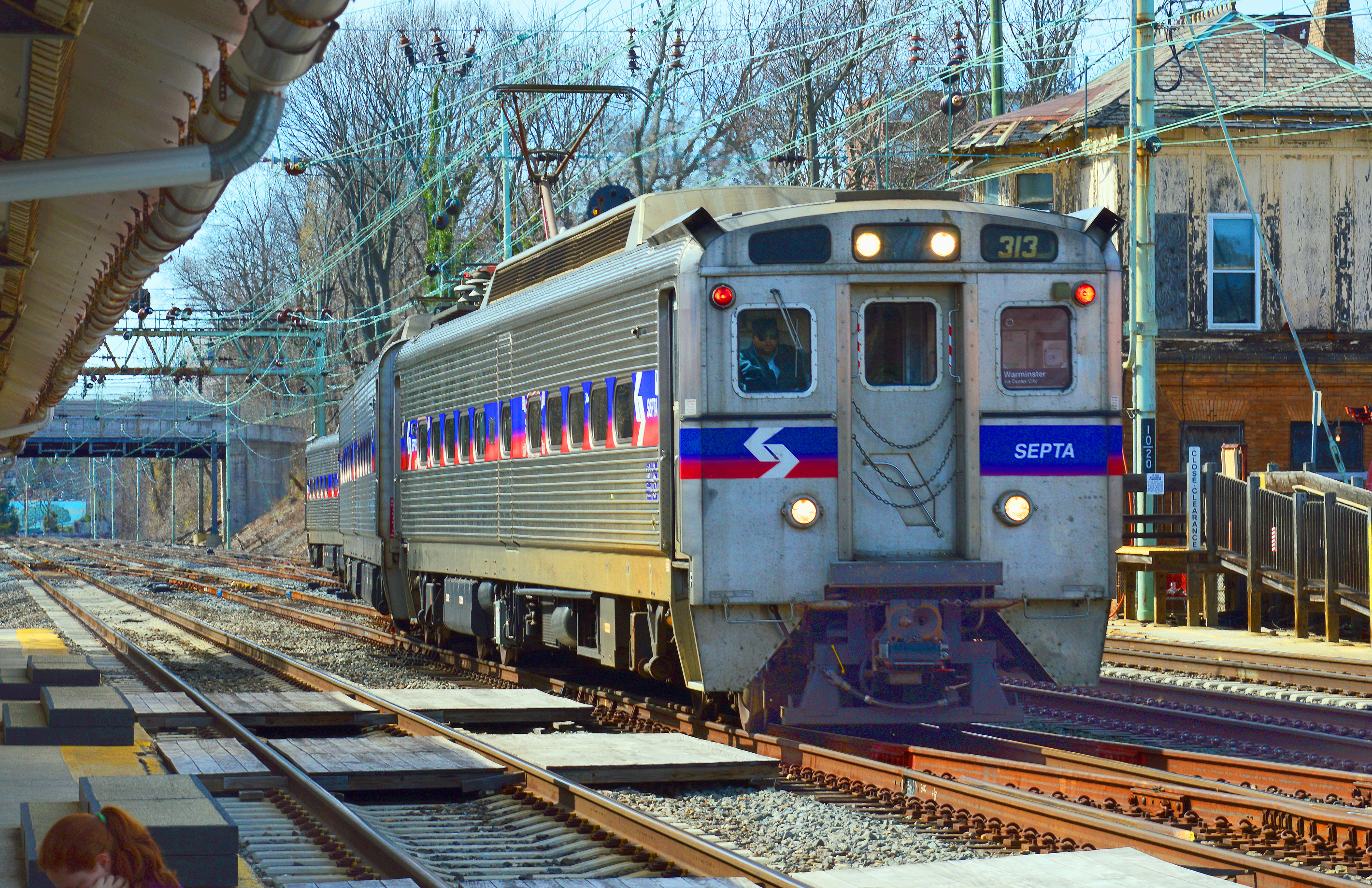 This four car SEPTA Philadelphia Regional Rail GE Silverliner IV consist had just ended an afternoon westbound "Bryn Mawr Local" run over the Paoli/Thorndale line (formerly R5) as SEPTA TR#9543 on track #4 of the Amtrak "Keystone Corridor" (the former Pennsylvania Railroad "Main Line"). It is seen here led by SPAX#313 as it reversed direction at the Bryn Mawr electro-pneumatic interlocking (MP 10.20) being relocated from westbound track #4 to eastbound track #2 to head back east to the University City station to begin its run as SEPTA TR#444 to Warminster, PA on the Warminster line. The two story building in the background is the now shuttered 1895 vintage Bryn Mawr Interlocking Control Tower adjacent to the Bryn Mawr station that was closed after a fire in 1994. The Bryn Mawr interlocking is now operated remotely from Paoli.